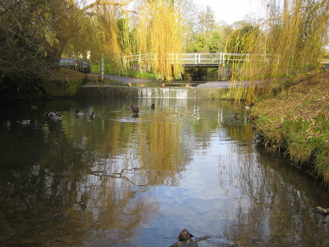 Braughing: Maltings Lane ford The ford, which is above the weir, allows Maltings Lane traffic to pass over the River Quin. Also visible are the footbridge, a water depth level gaugeboard, and the omnipresent ducks.